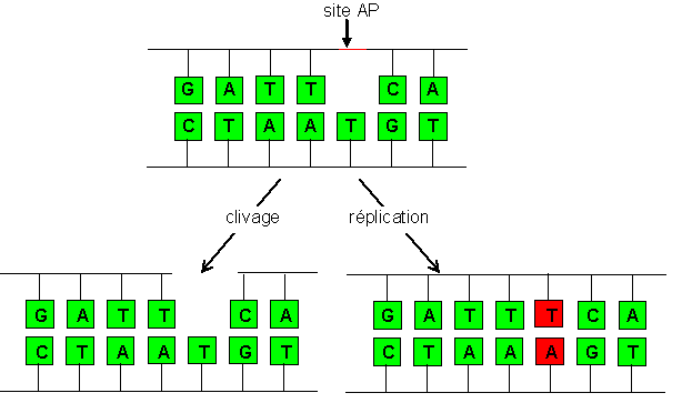 Sketch for AP sites + clastogenic/mutagenic impacts